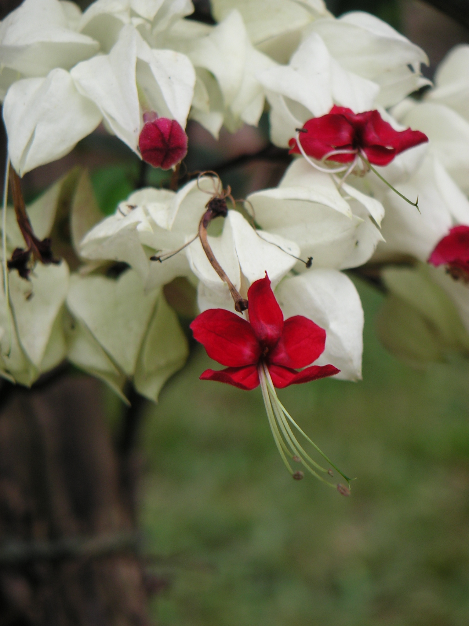 Clerodendrum thomsoniae, Lamiaceae, Cali / Kolumbien